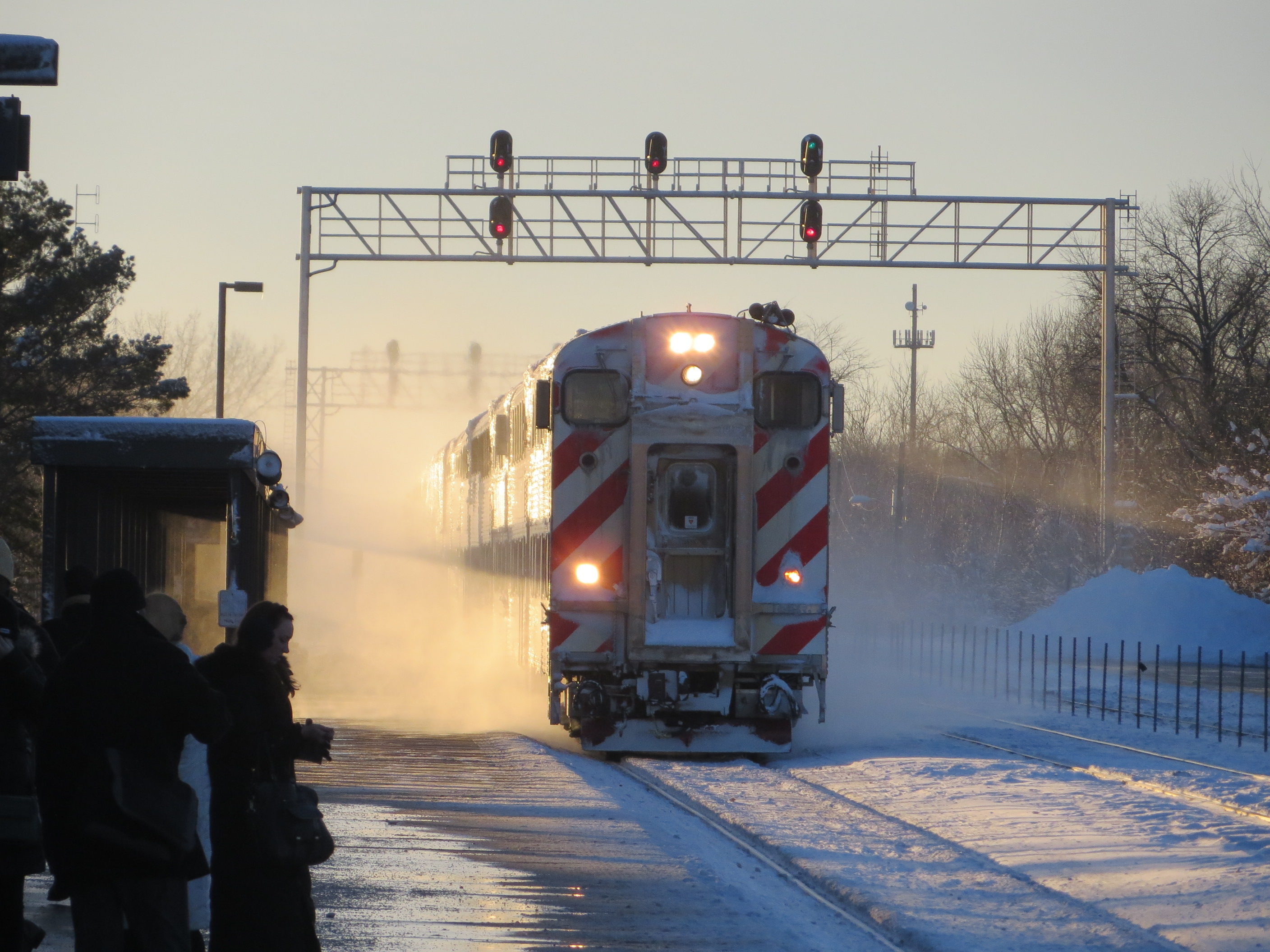 20150202 33 Metra, Naperville, Illinois